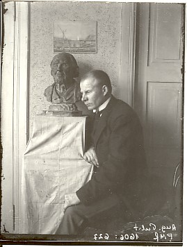 August Pulst Estonian artist and folk music enthusiast